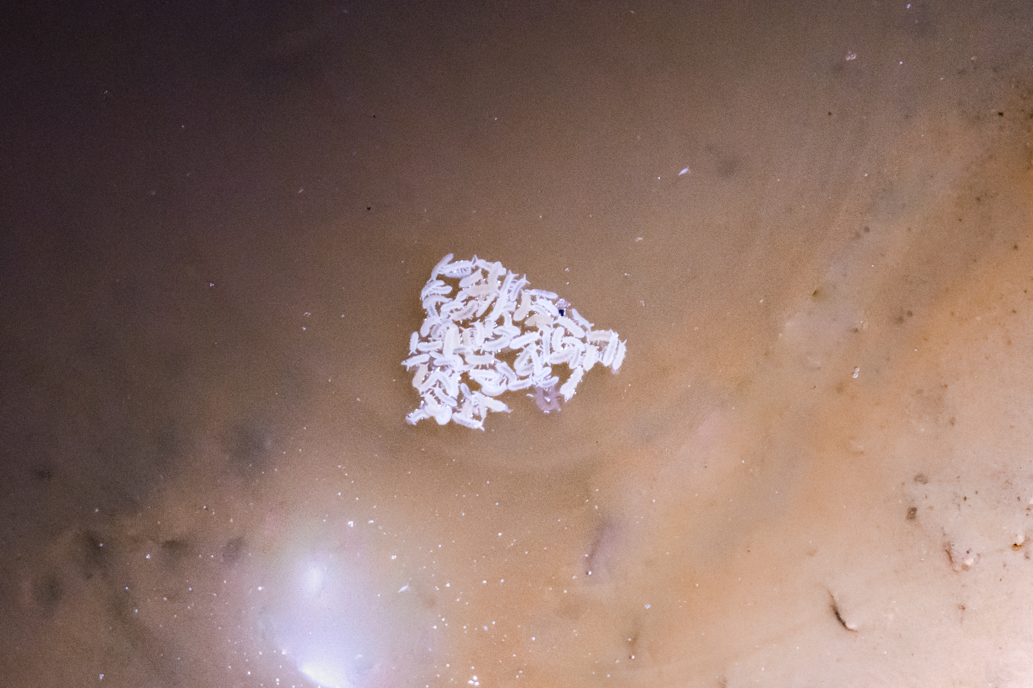 Springtails drafting in the pool in Kawachi no Kaza-ana("Kawachi Wind Cave").